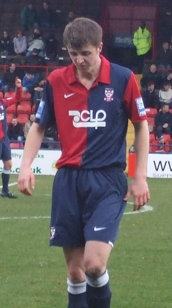 Adam Boyes playing for York City against Havant & Waterlooville at Bootham Crescent, York on 21 February 2009